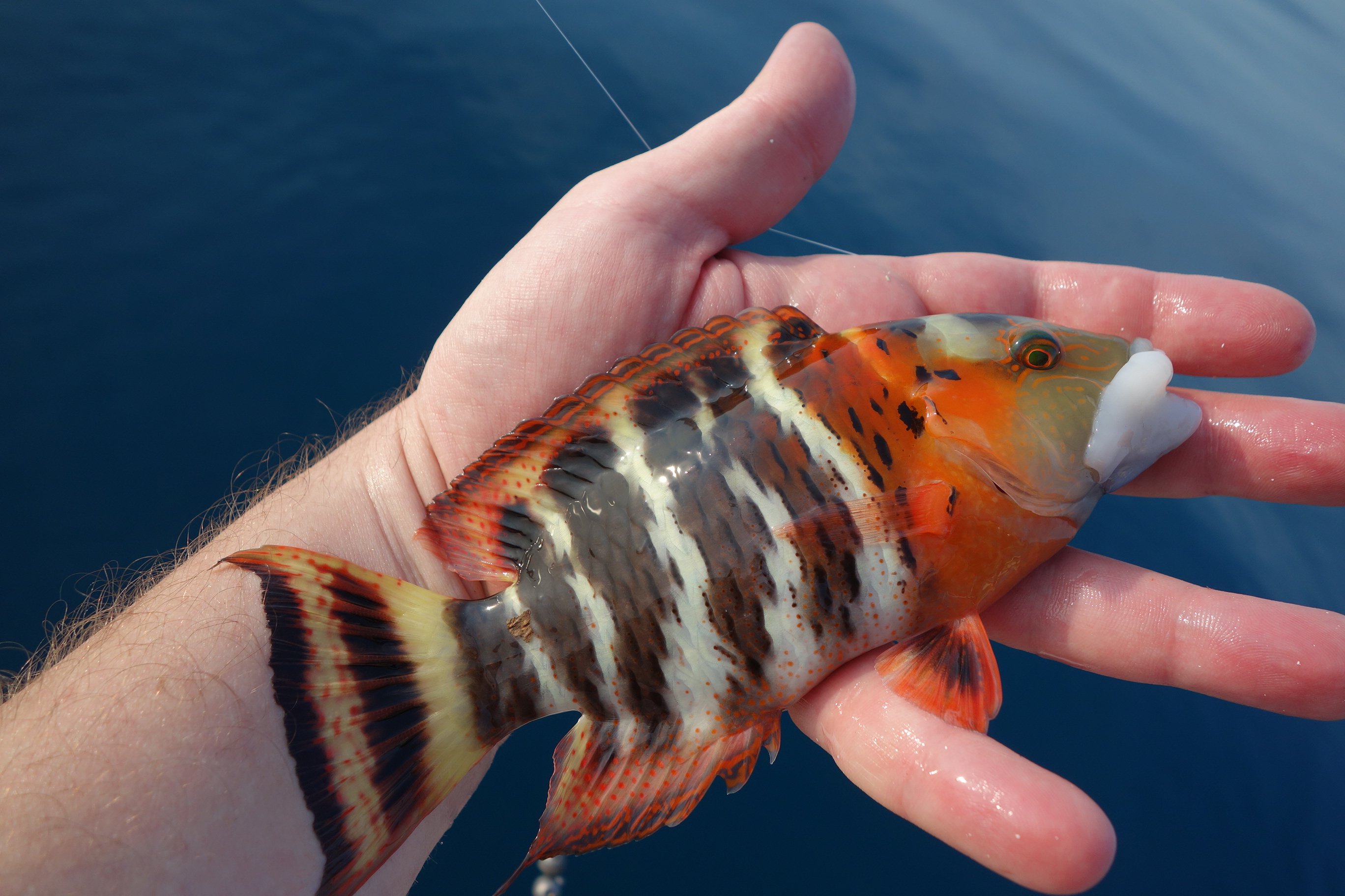 An Redbreasted Maori Wrasse caught in the Sea of Jawa